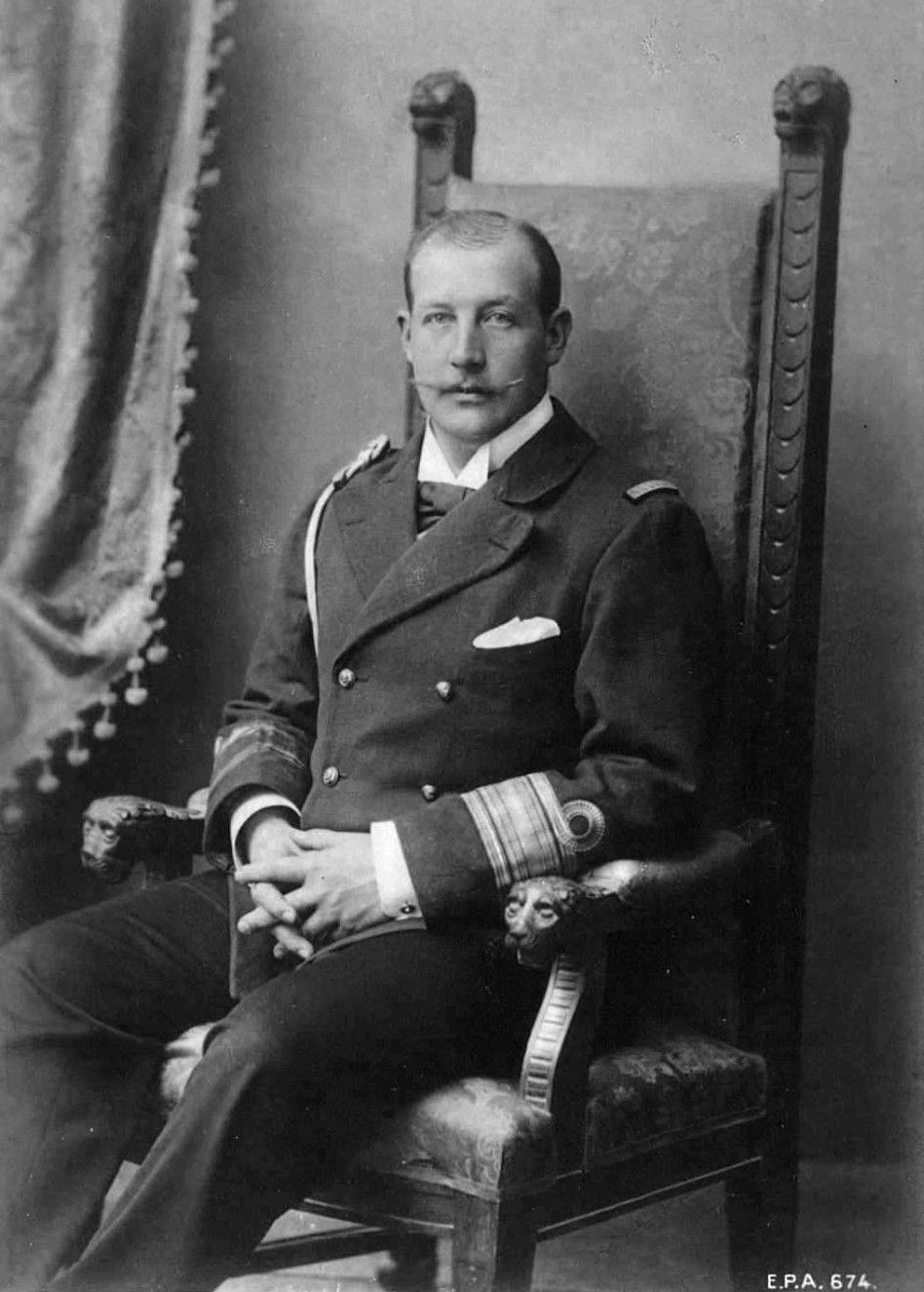 Prince George of Greece